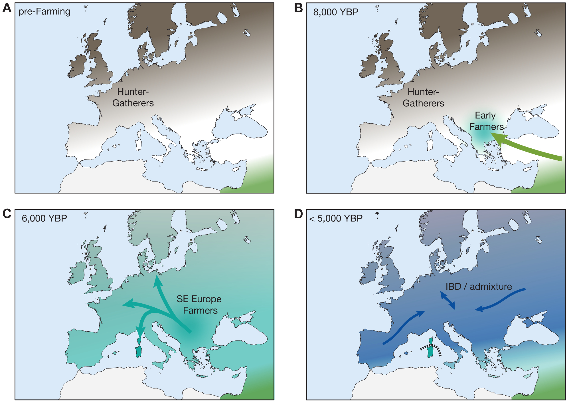 Simplified model for the recent demographic history of Europeans